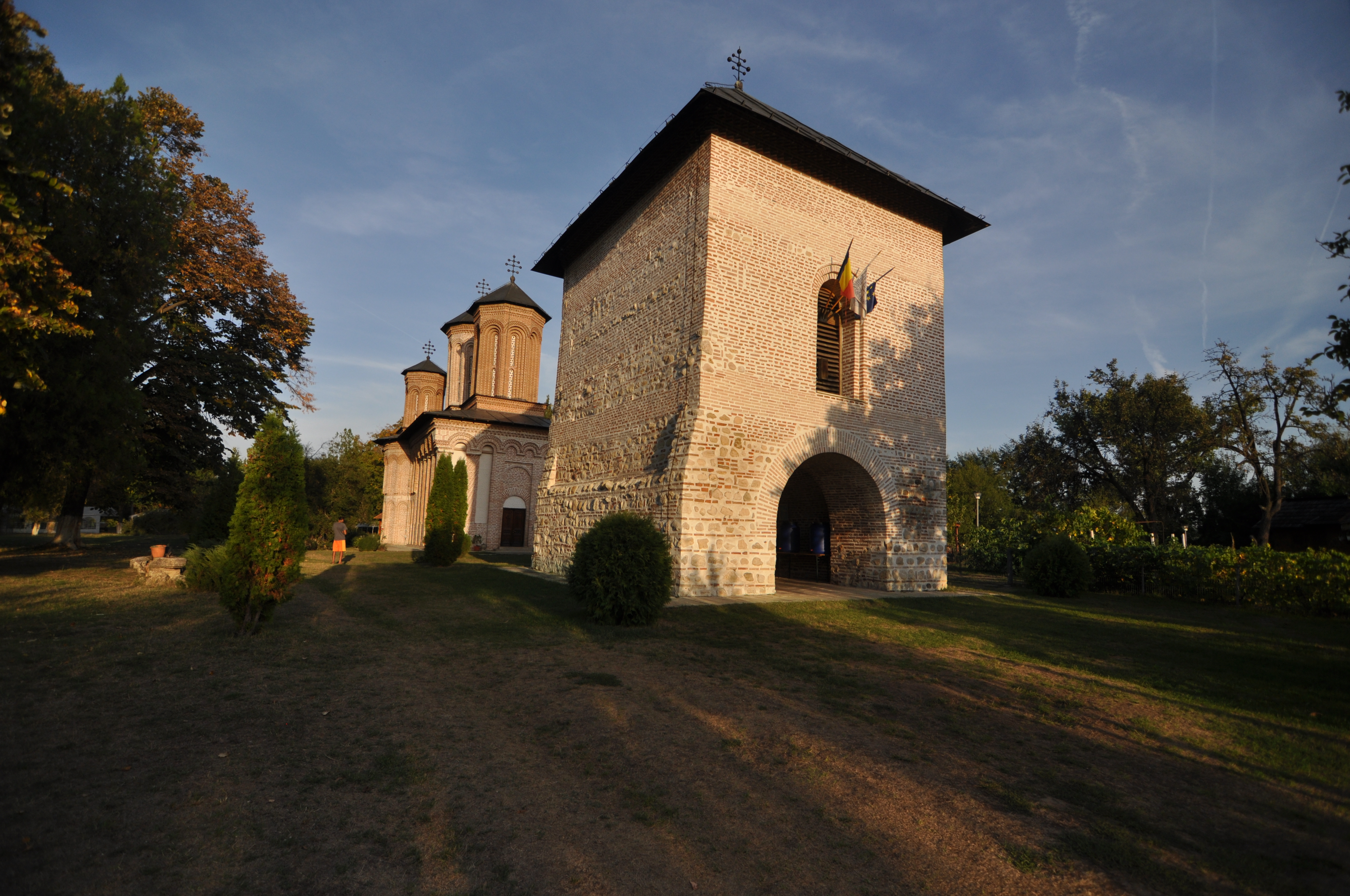 Snagov Monastery Biserica "Intrarea Maicii Domnului în Biserică" "The Presentation" Church [Entrance of the Theotokos into the Temple] construction from 1517, iconography from1563, other interventions 1815, 1904, 1941, 1953, 1966...